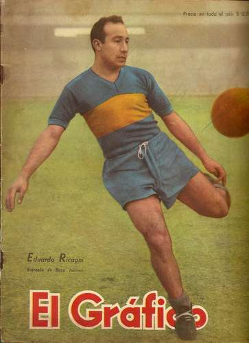 Eduardo Ricagni playing for Boca Juniors